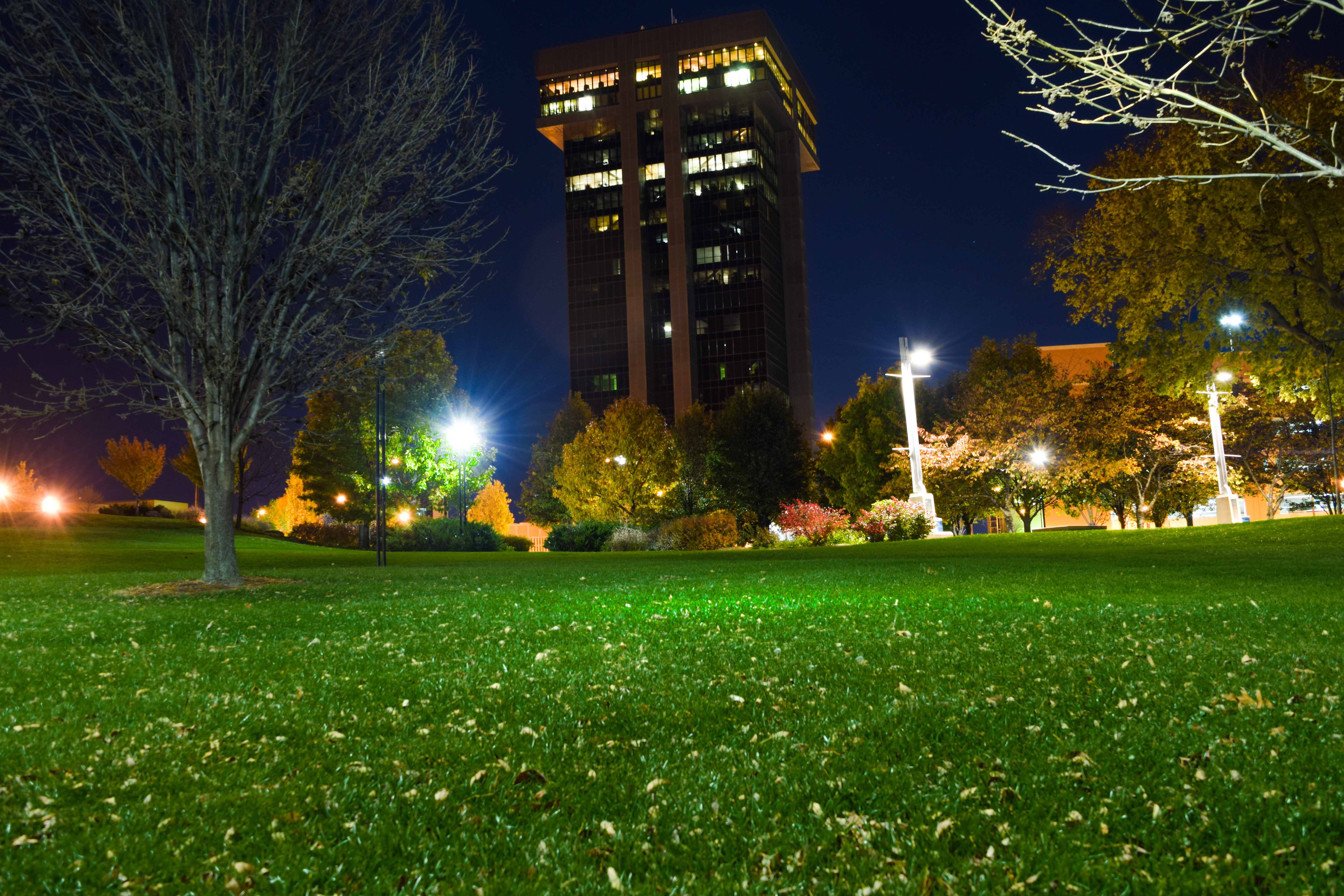 A Nighttime view of Hammon's Tower